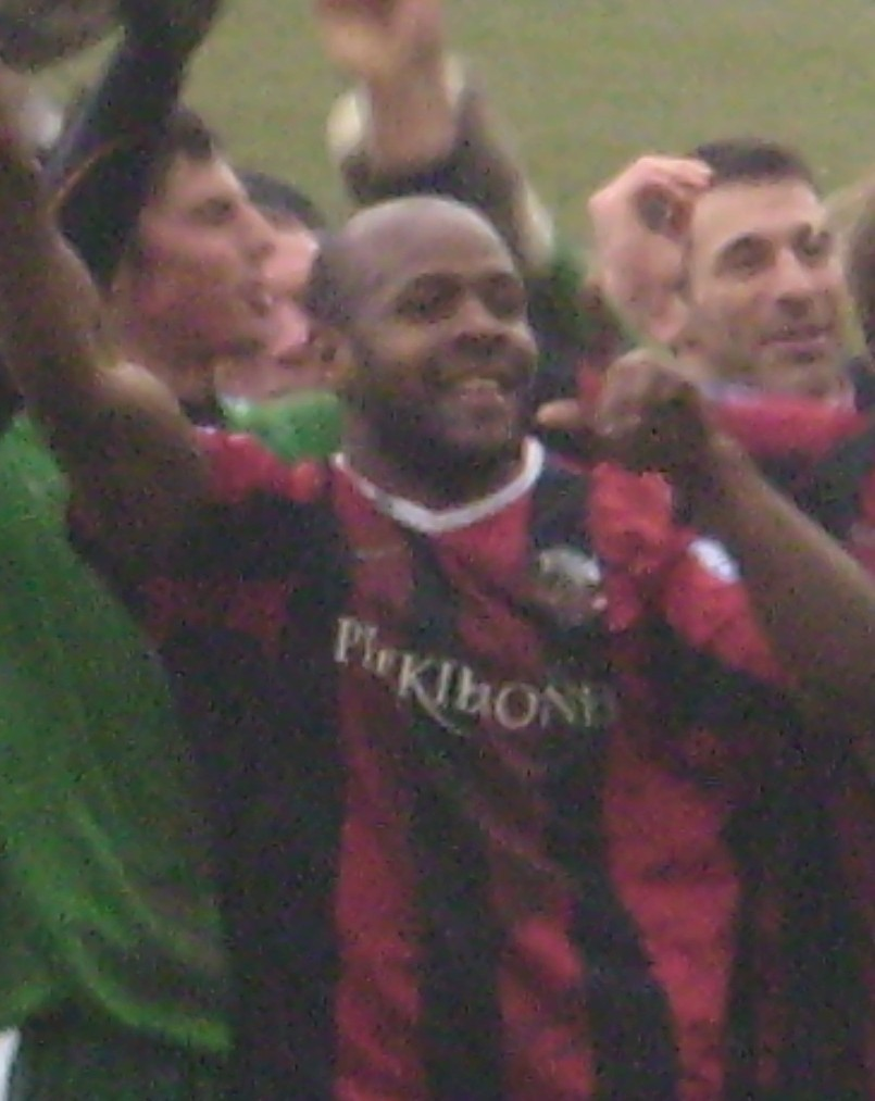 Jean-Michel Sigere, then of Lewes F.C., celebrates the 2–0 win against Dorchester Town F.C. which clinched the 2007–08 Conference South title